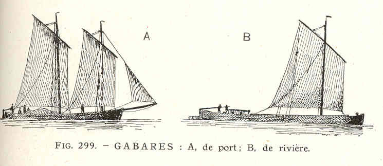 a, de port; b, de riviere Subject: Barges Tag: Vessels